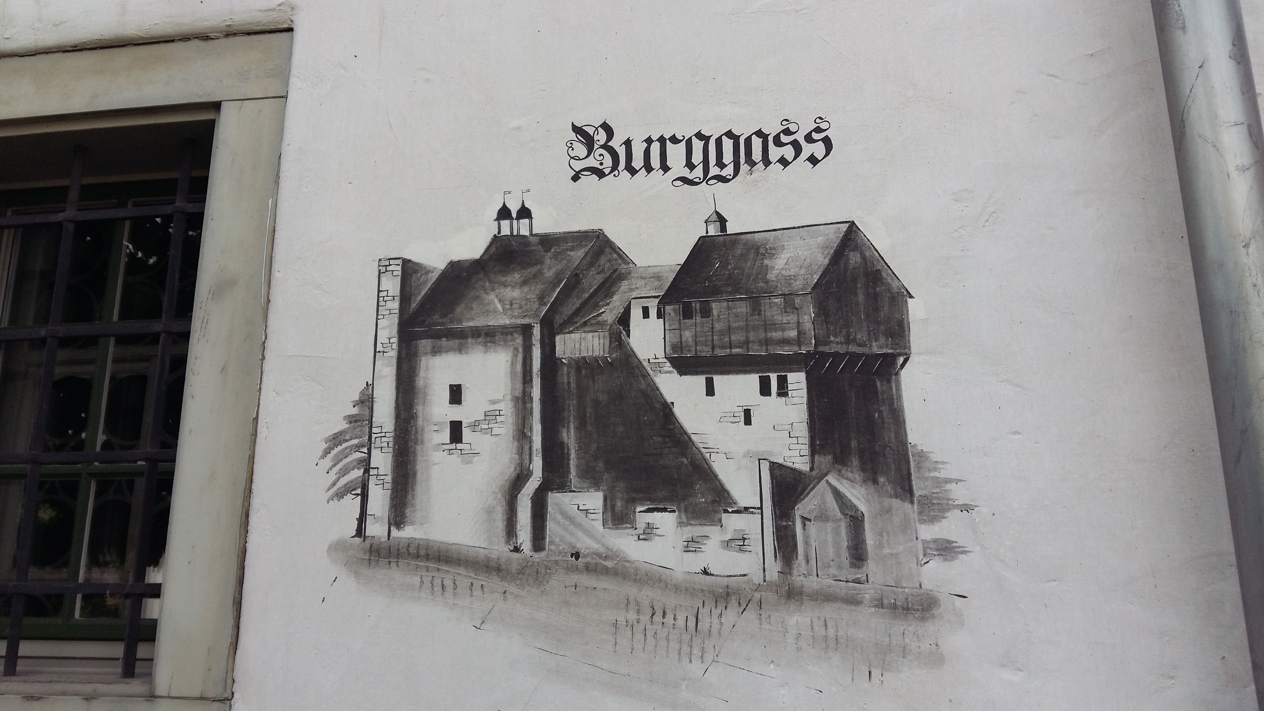 Wallart from 17. or 18. Century in Berneck (SG) Swizzerland